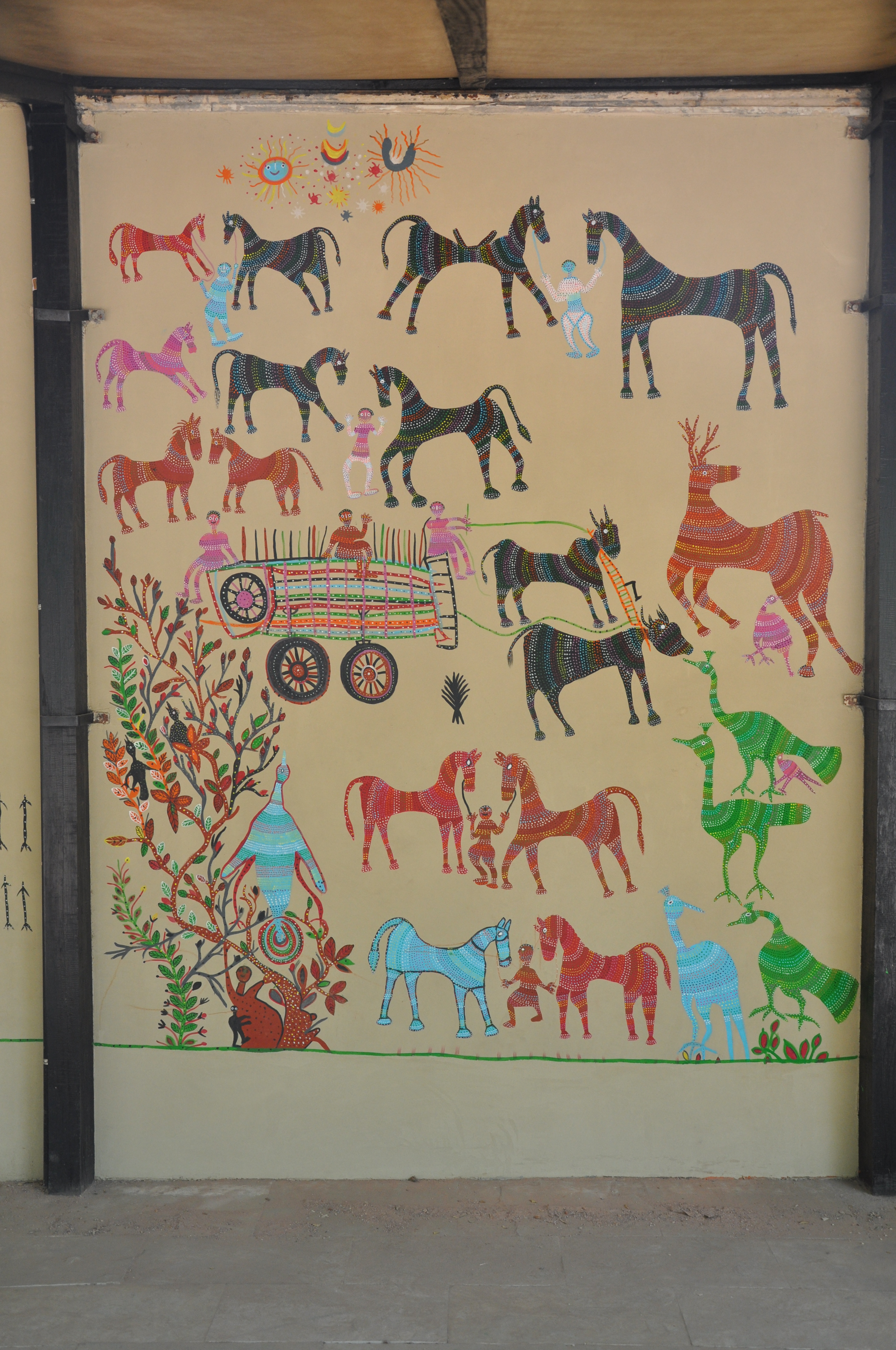 Wall Painting by Bhil Community